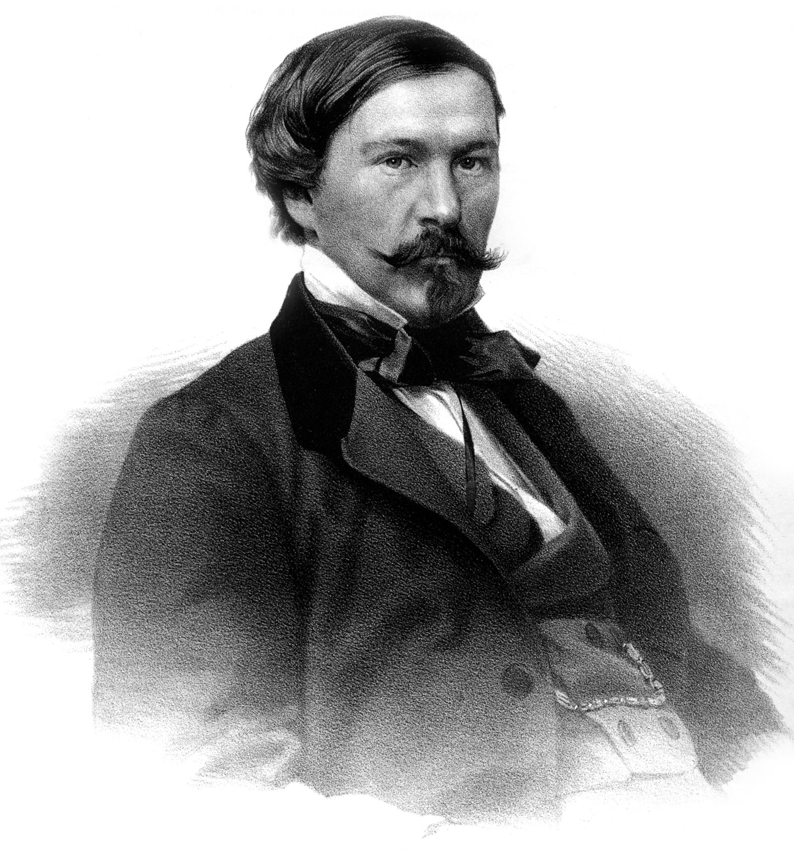 Portrait of Aleksandr Druzhinin (1824—1864), russian Writer.